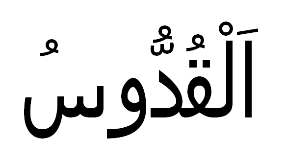 5 Name of Allah